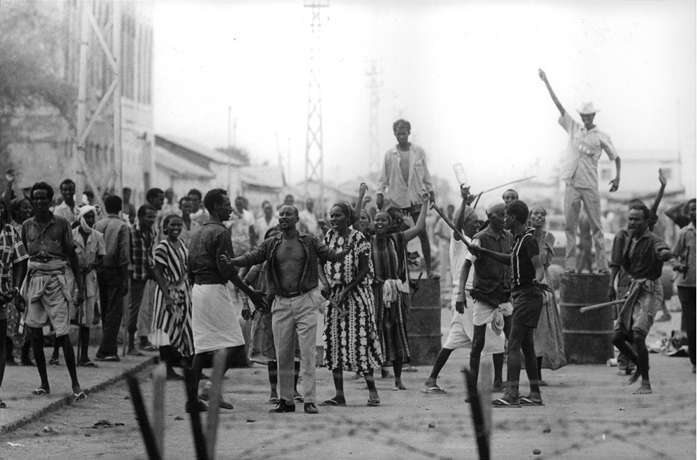 A demonstration in Djibouti, Africa, 1967.